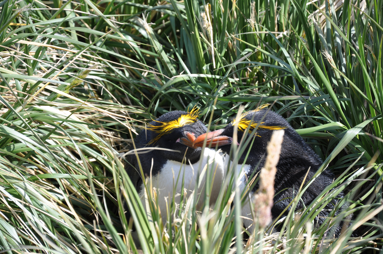 Macaroni Penguin, Eudyptes chrysolophus, South Georgia